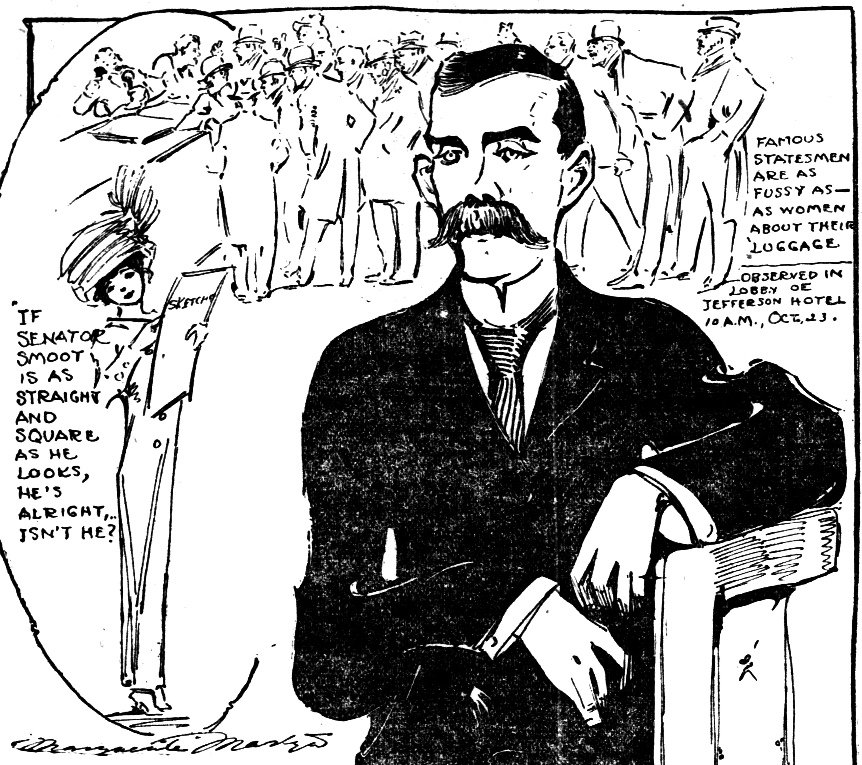 In this detail of a sketch by journalist Marguerite Martyn, she pictures herself with a sketch pad. U.S. Senator Reed Smoot of Utah is in the foreground. At rear, politicians wait for their luggage as they prepare to check out of the Jefferson Hotel in St. Louis, Missouri. The image was printed on October 26, 1909, in the ‘’St. Louis Post-Dispatch.’’